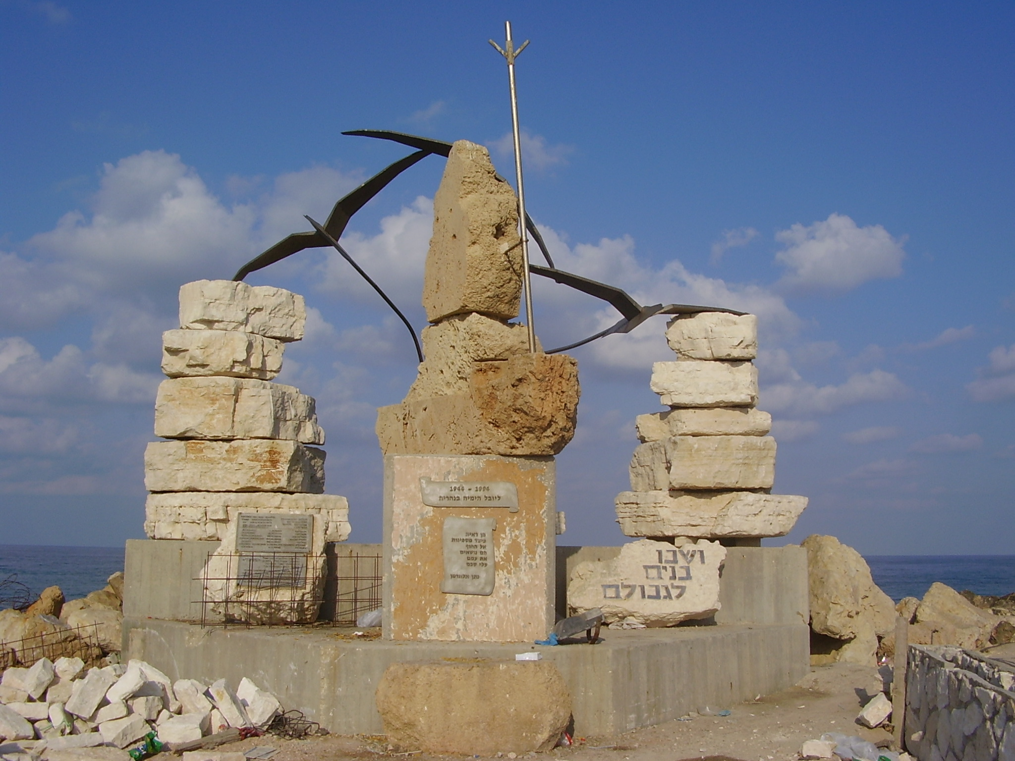 Nahariya beach immigration monument